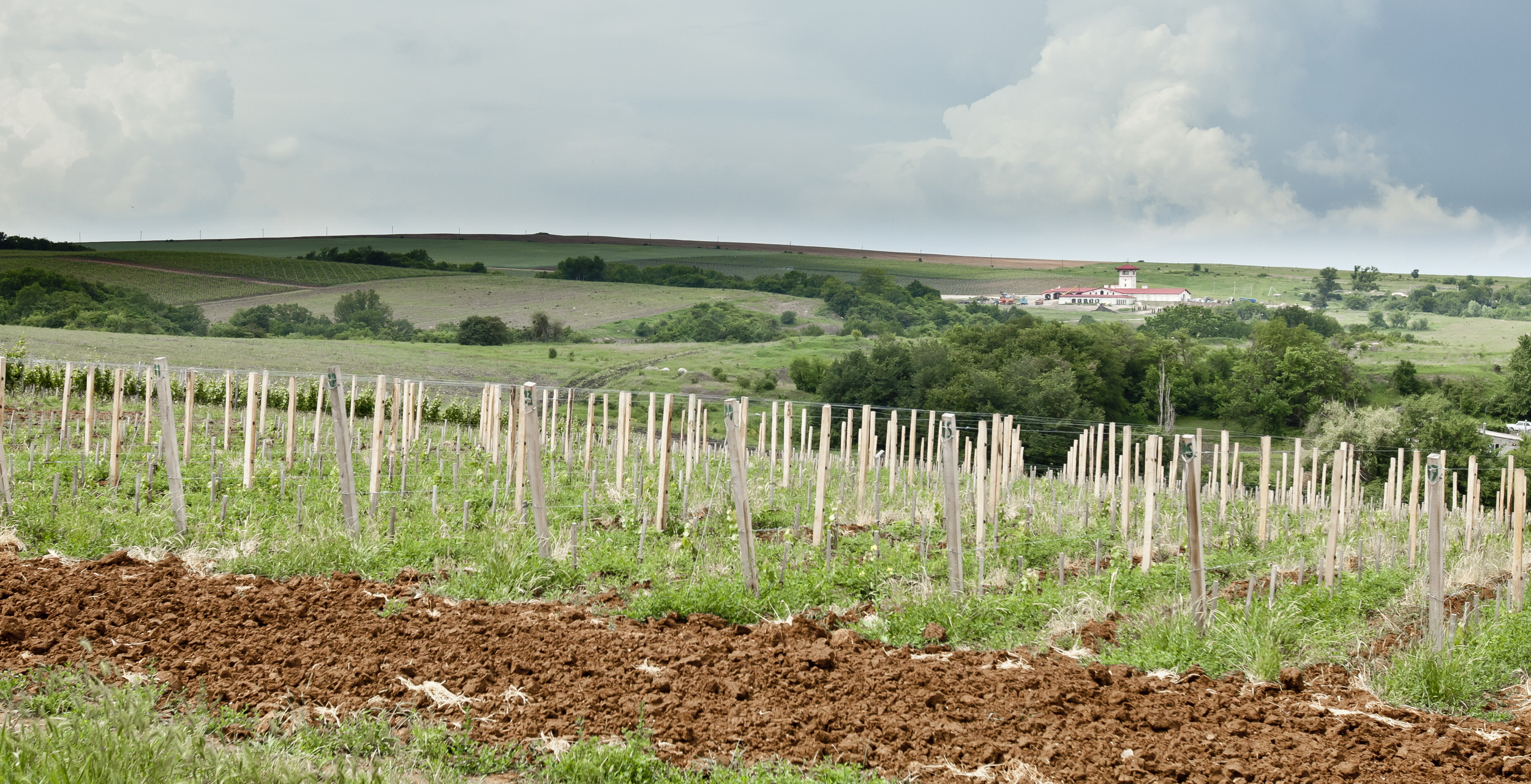 Russian winery "Lefkadia" territory